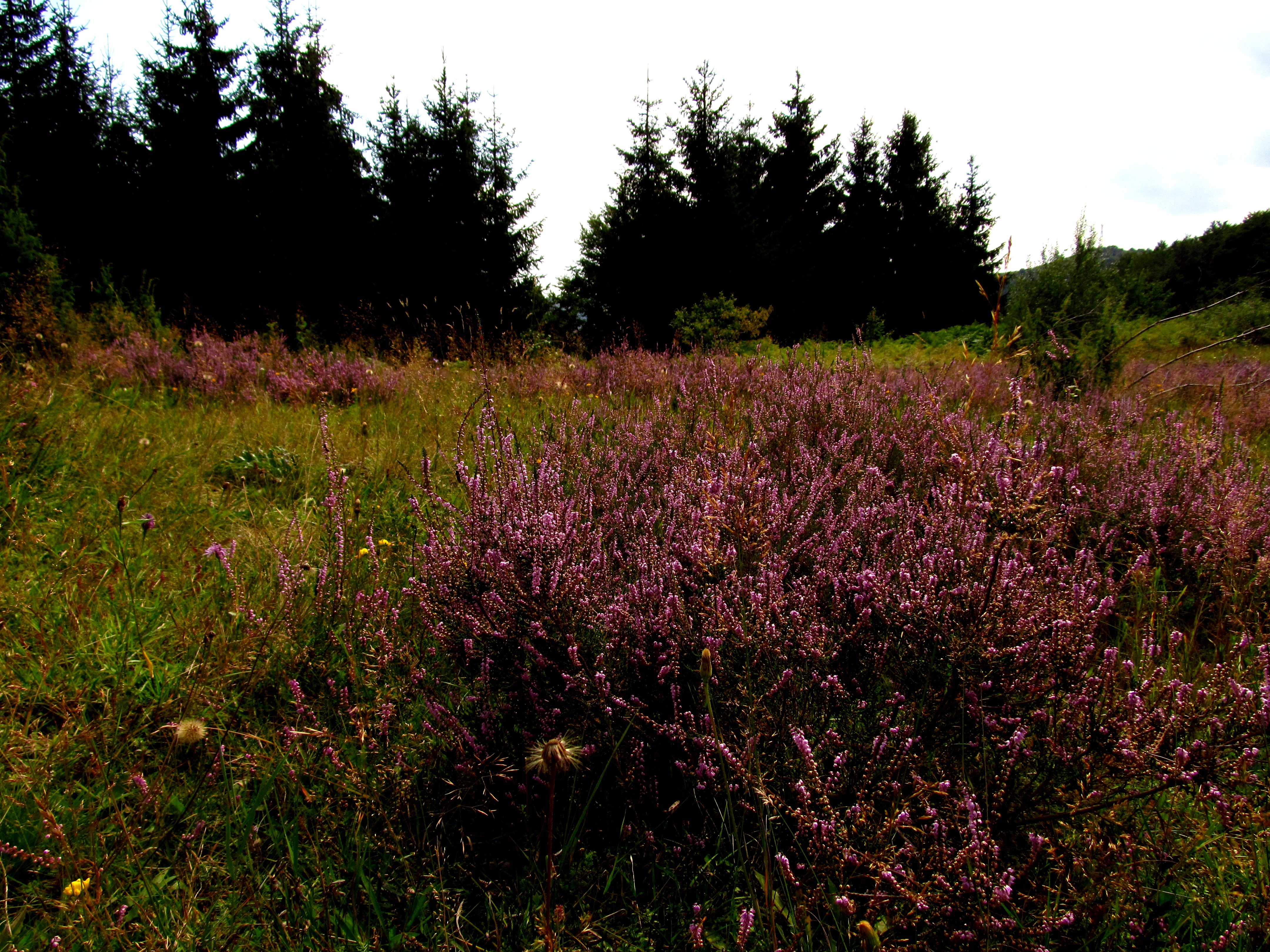 Calluna vulgaris